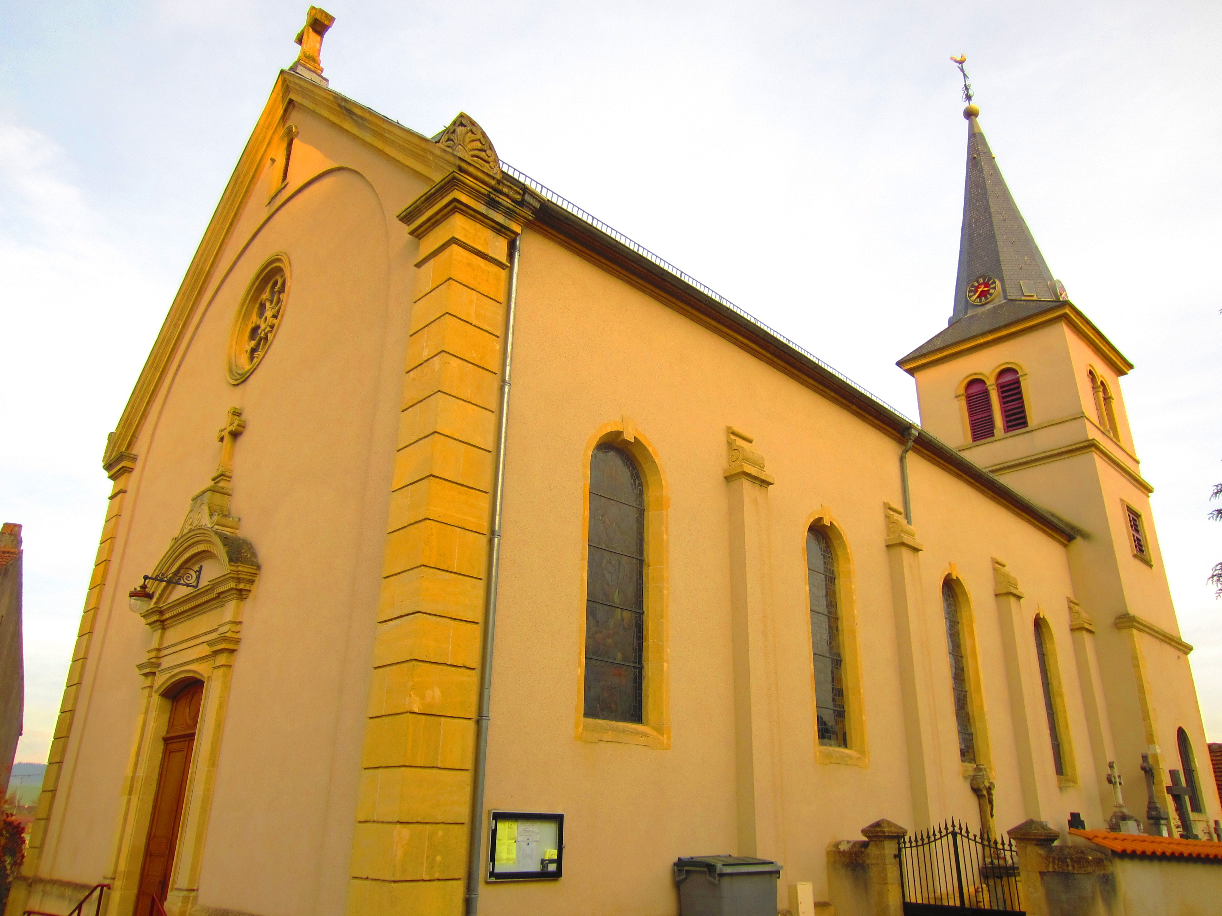 Description eglise Inglange Date23 November 2011Sourcemon appareil photoAuthorAimelaimePermission (Reusing this file) eglise Inglange